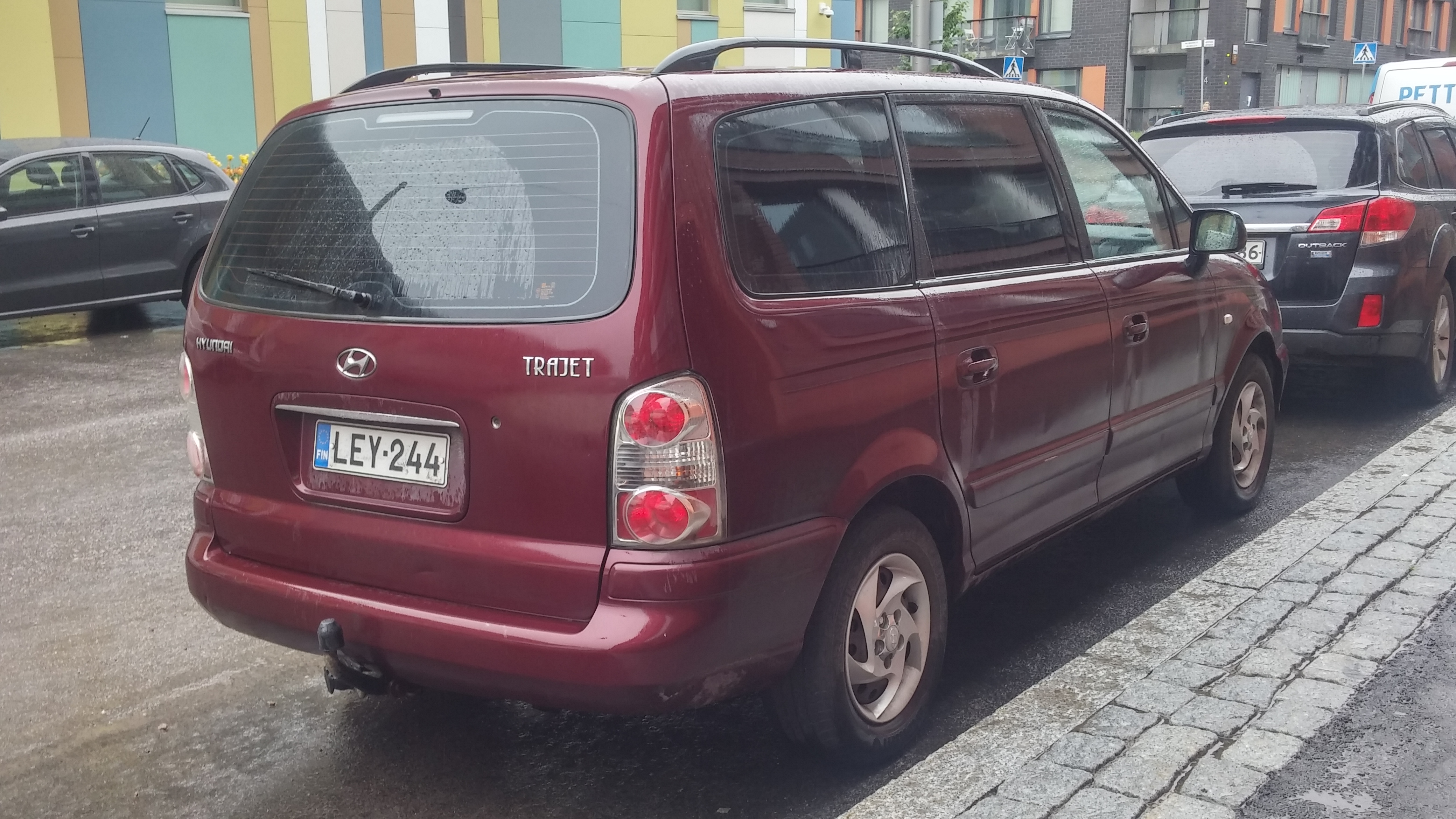 2007 Hyundai Trajet